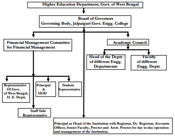 organisational administrative structure of JGEC